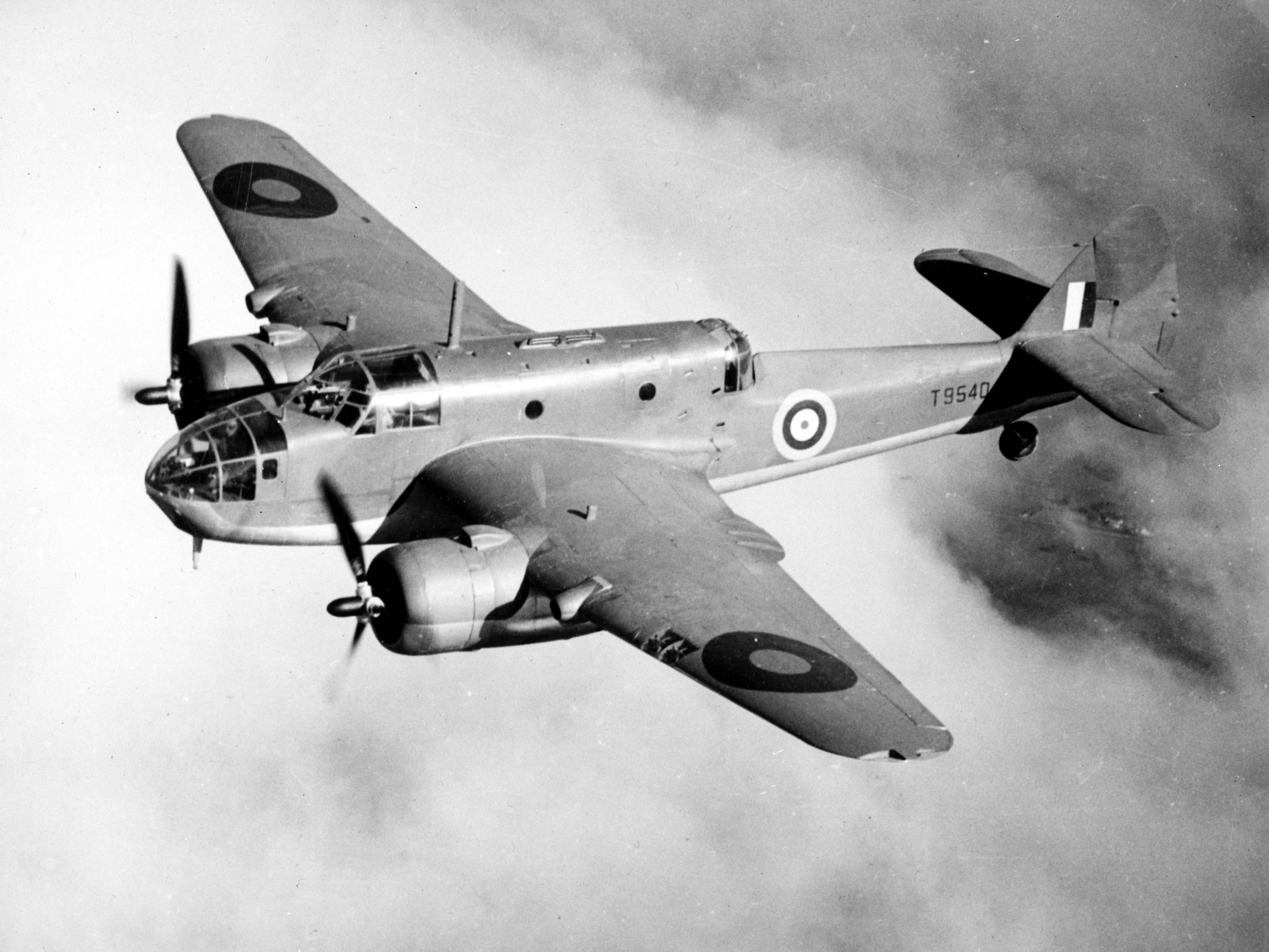 The first Royal Australian Air Force Bristol Beaufort Mk.V. It was delivered to the RAAF on 3 September 1941, with the RAF serial "T9450". Subsequently it received the RAAF serial "A9-1". Originally this aircraft was intended for use in Singapore, but it was retained in Australia. It is known that it served in 1942 with No. 1 OTU and with No. 100 Squadron in 1944. on 29 September it overshot a flare path and crashed through a boundary fence upon landing at Bairnsdale, Victoria, but it was repaired. It was finally placed in storage on 23 October 1945 and written off on 13 May 1946. See [1]